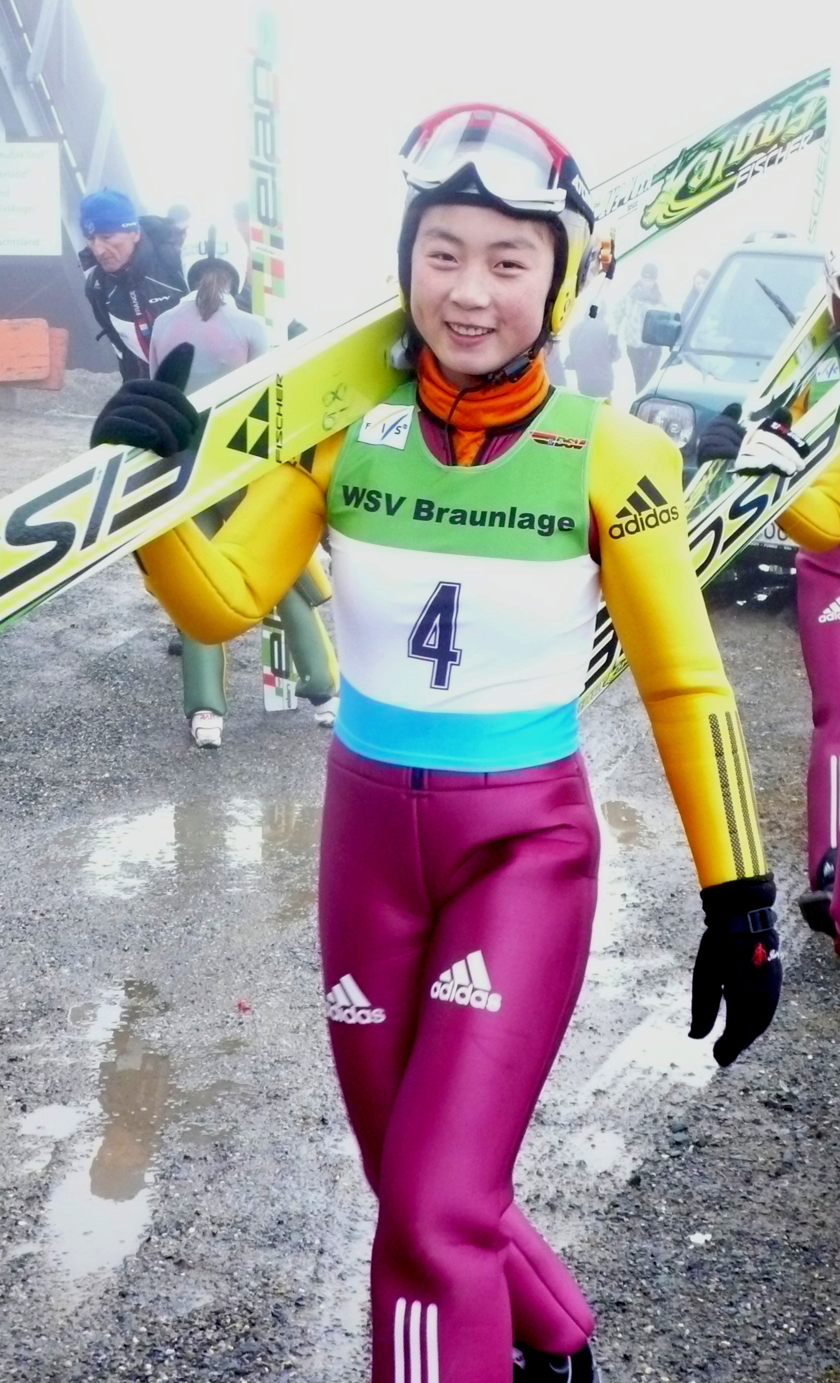 Tong Ma, Braulage, 2011